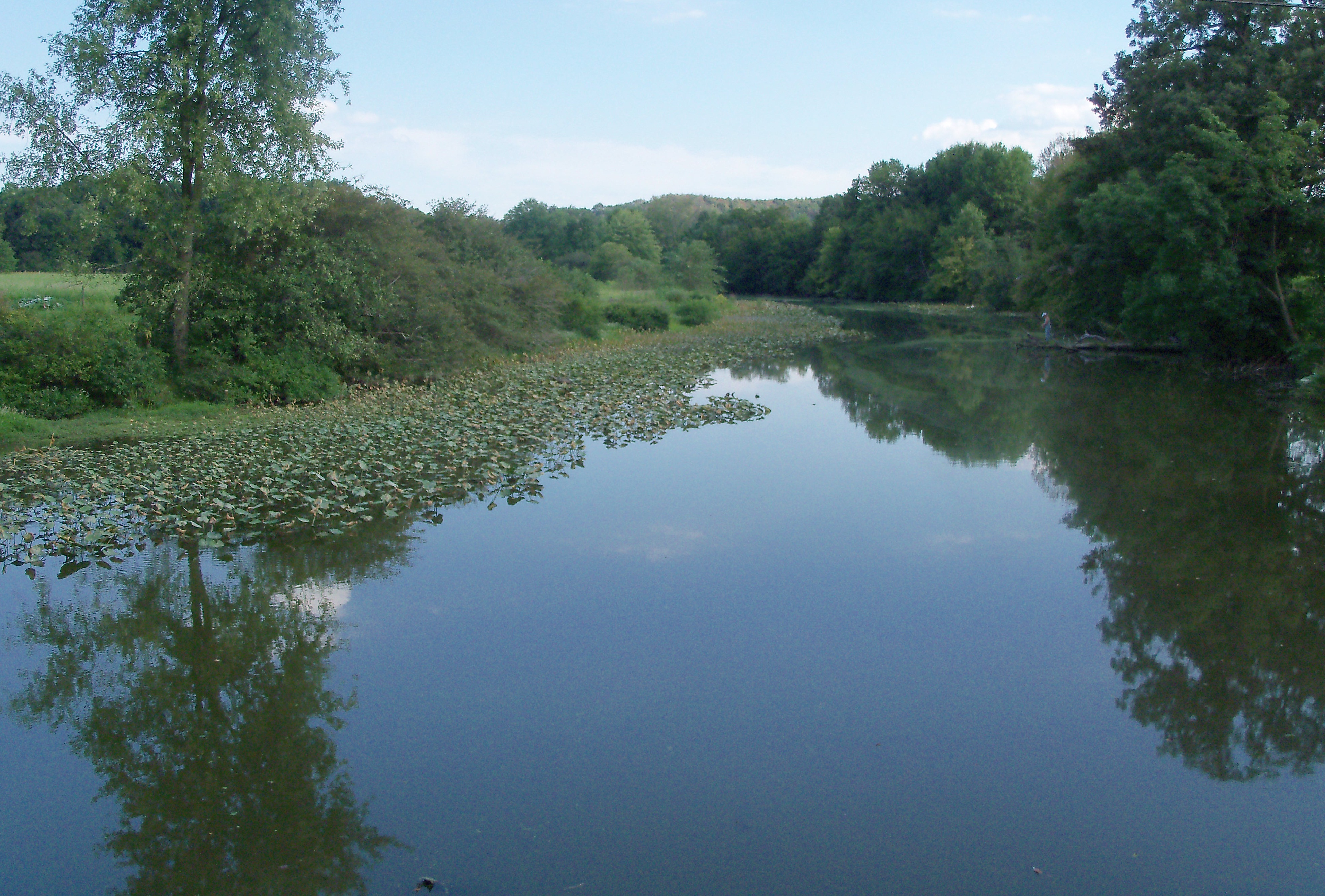 Still Fork near Minerva, Ohio.